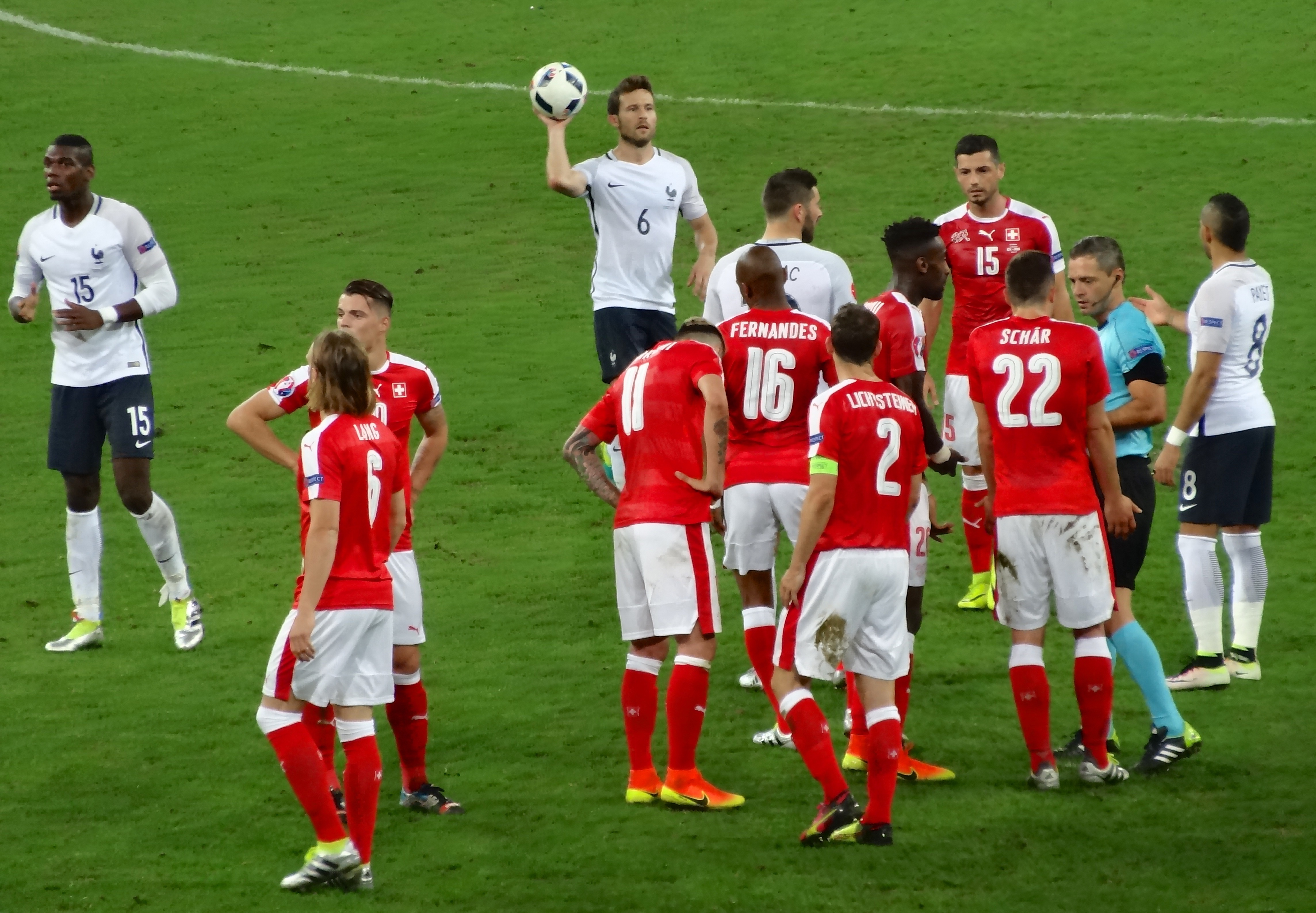 France - Suisse (Euro 2016, Villeneuve d'Ascq)